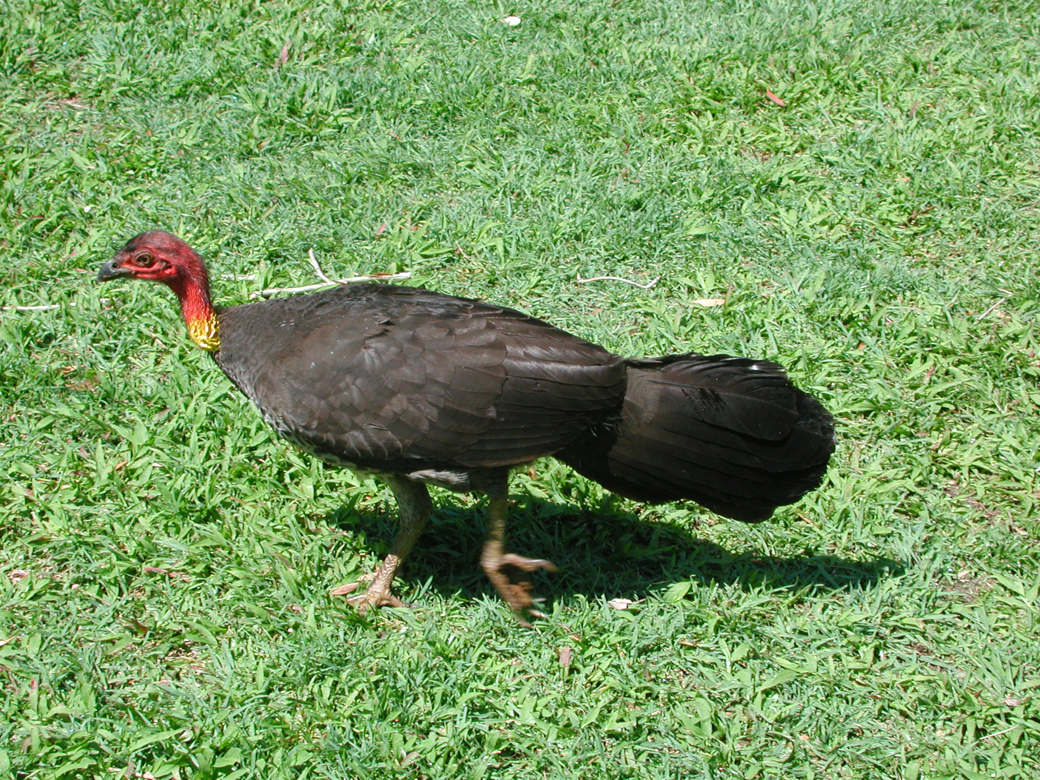 Alectura lathami, Brush Turkey, Buschhuhn, Brisbane, Australia